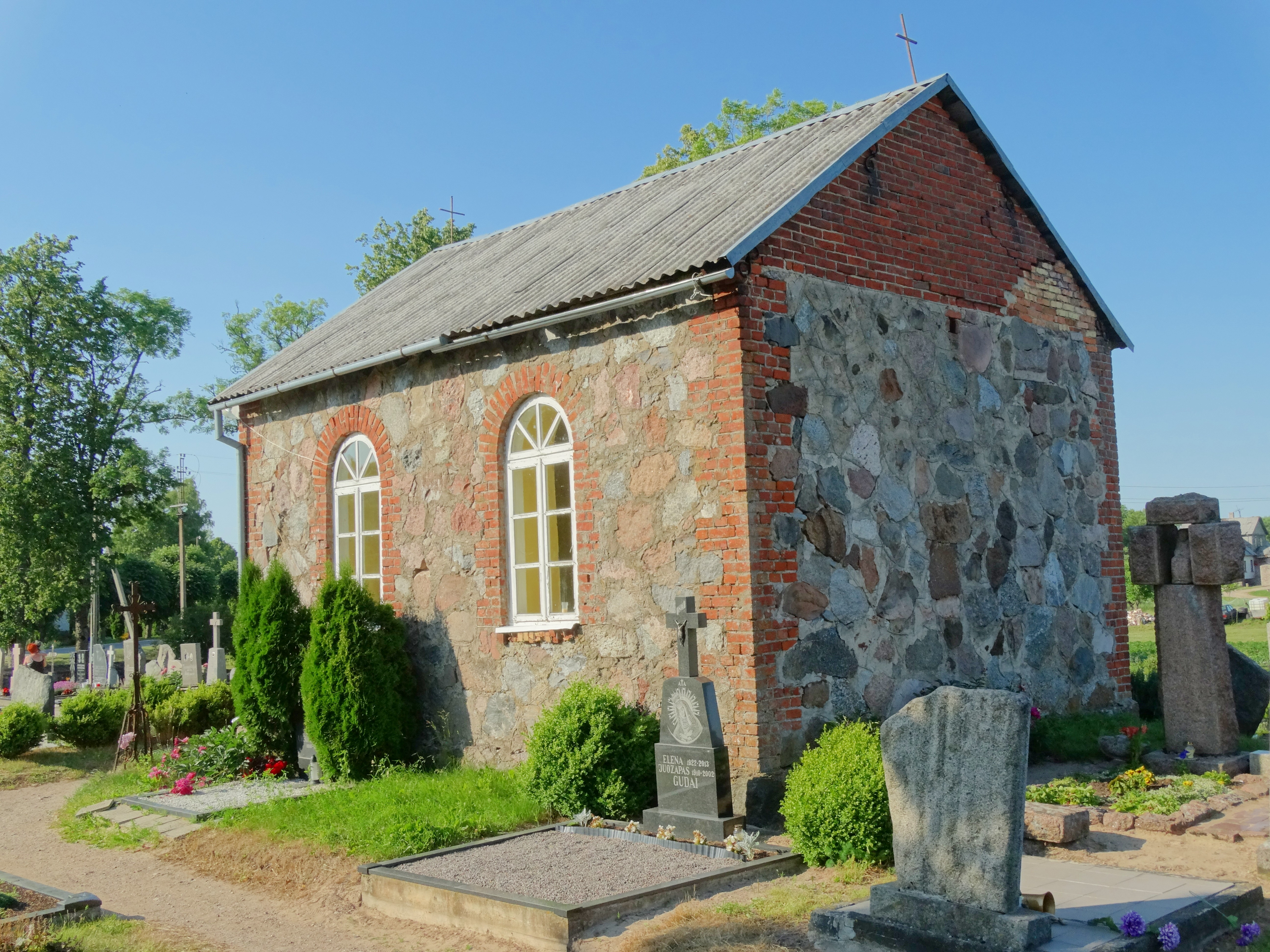 Chapel, Žarėnai, Telšiai District, Lithuania